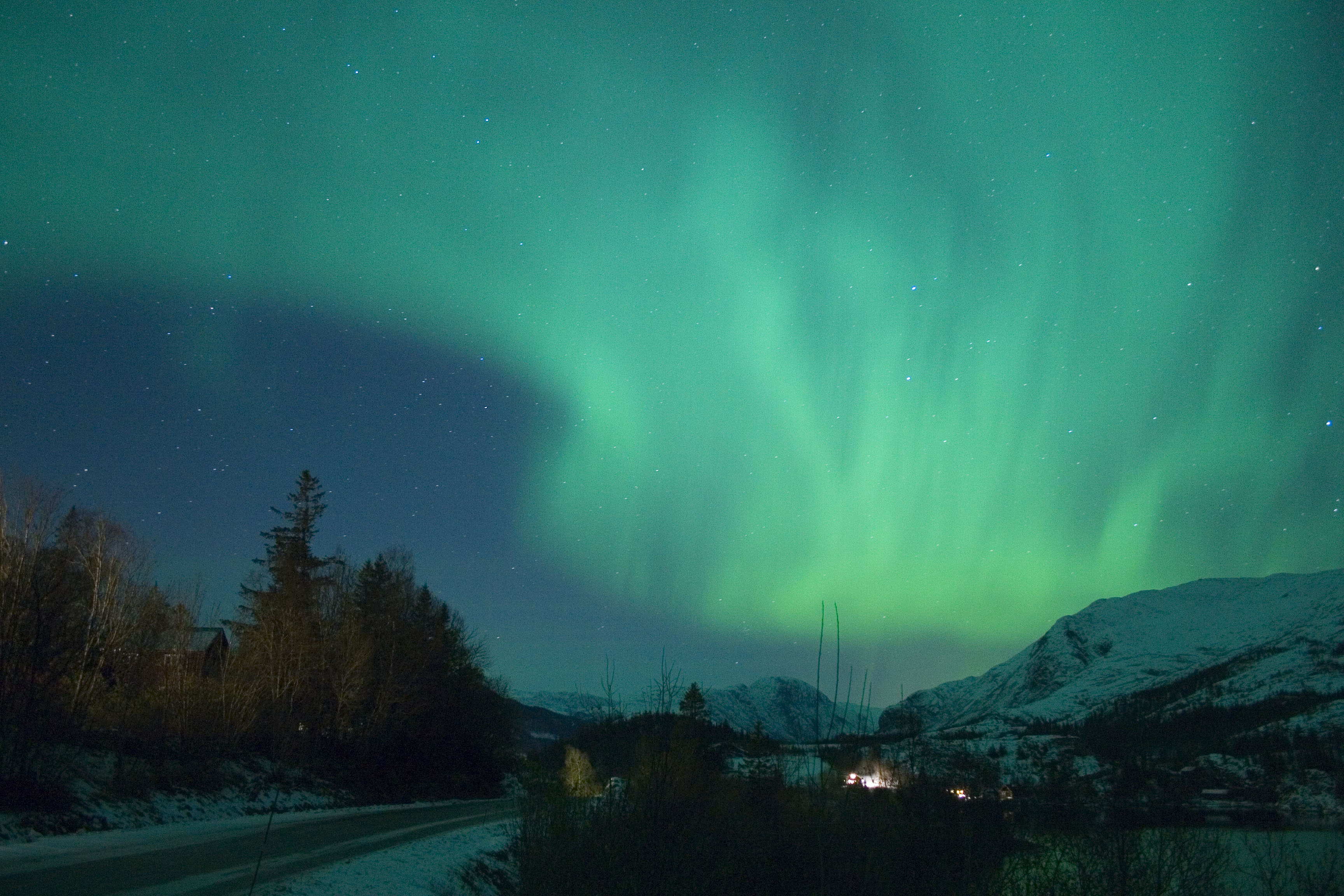 Aurora Borealis observed in Norway on 2006-10-28.